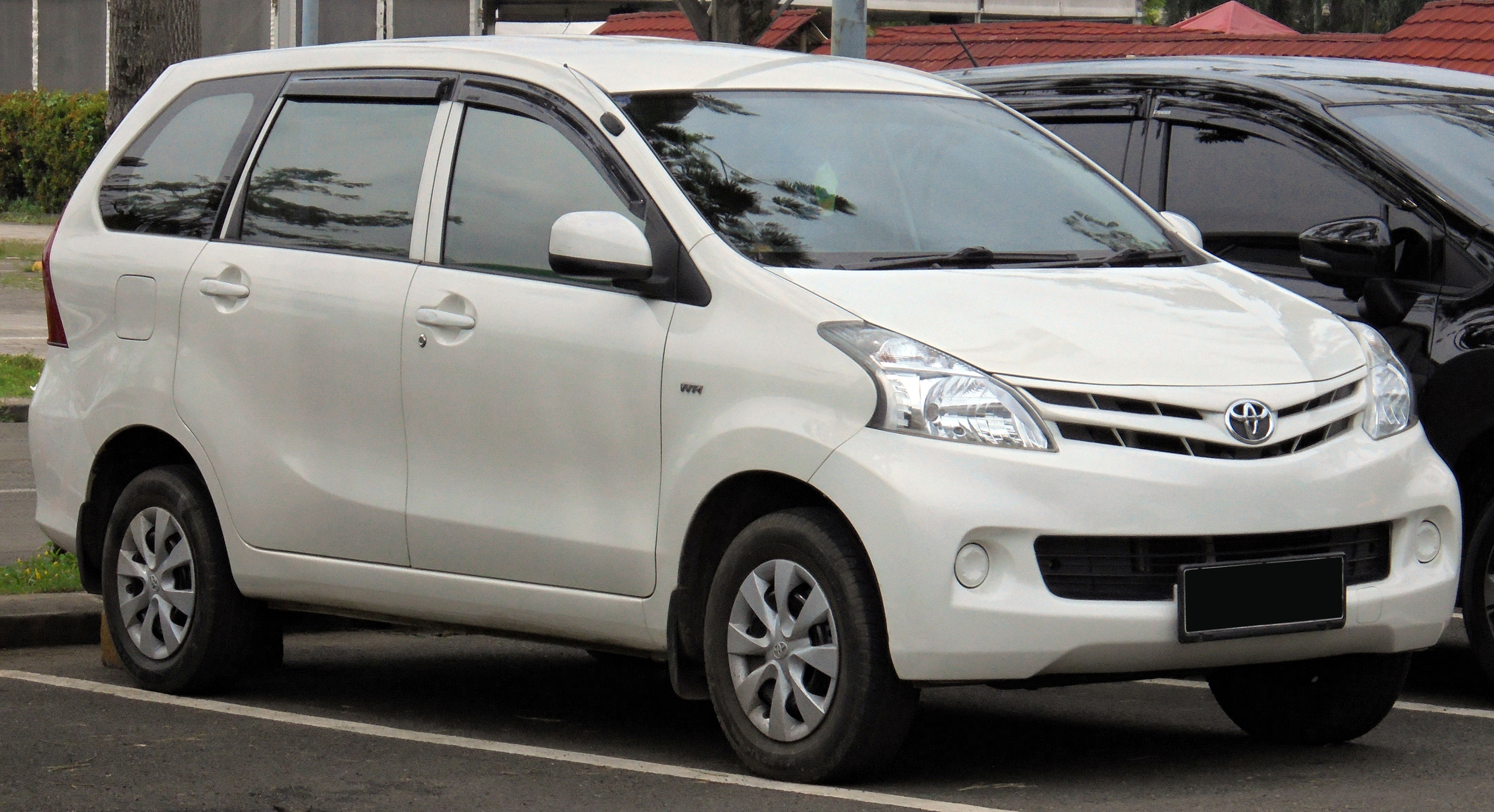 2014 Toyota Avanza 1.3 E wagon (F651RM) photographed in South Tangerang, Banten, Indonesia.